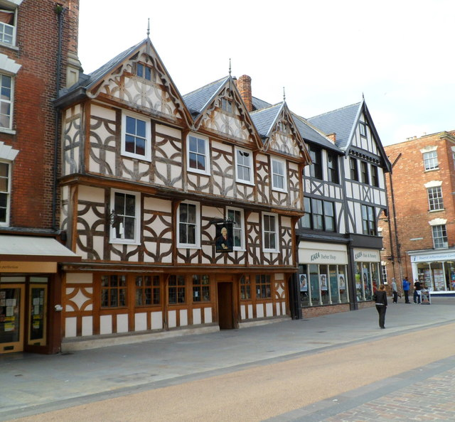 Grade II* listed Robert Raikes's House, Gloucester